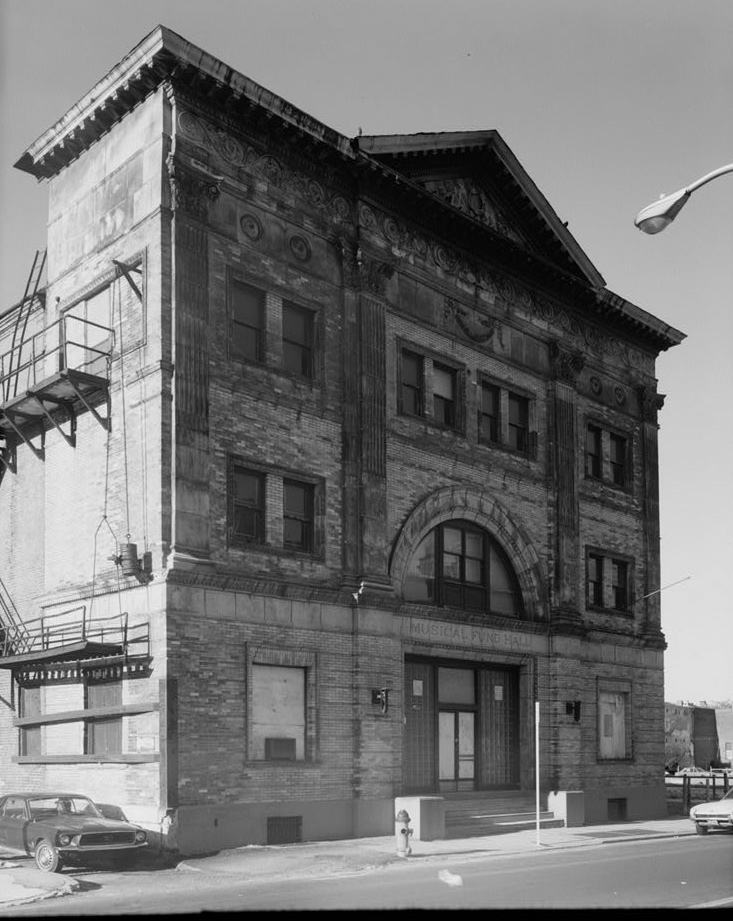 The Musical Fund Hall 808 Locust, Philadelphia, PA . National Historic Landmark since 1974 photo ref HABS PA,51-PHILA,494-1. First Republican National Convention was held there in 1856 (Presidential Candidate Fremont)